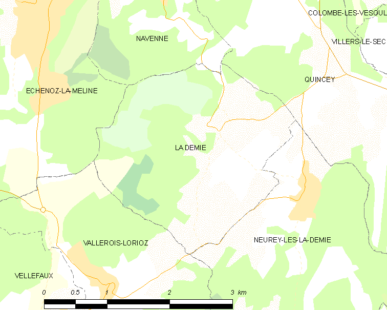 Map of French municipality